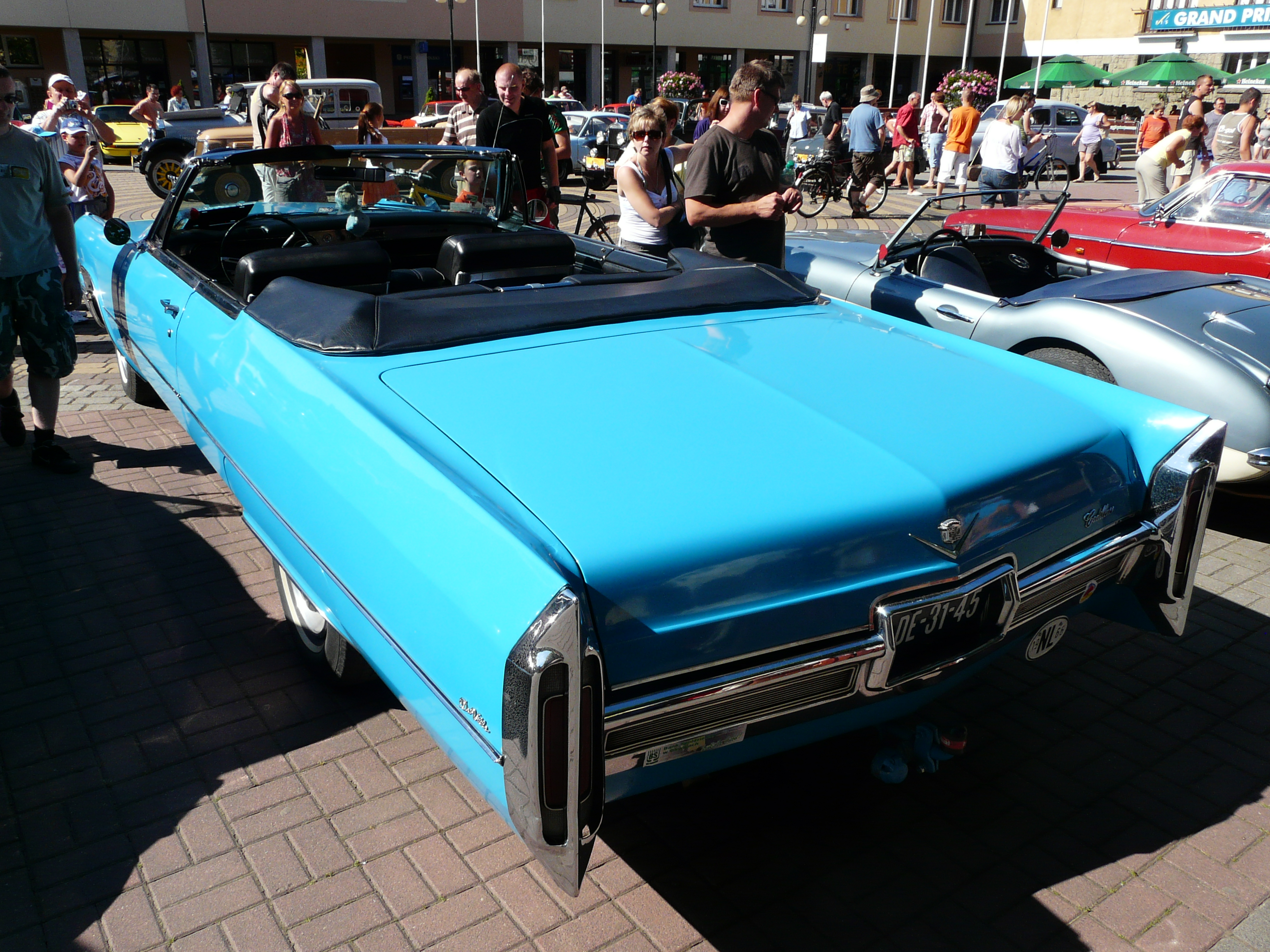 Old car exhibition. Wisa, Poland, 10 July 2010.